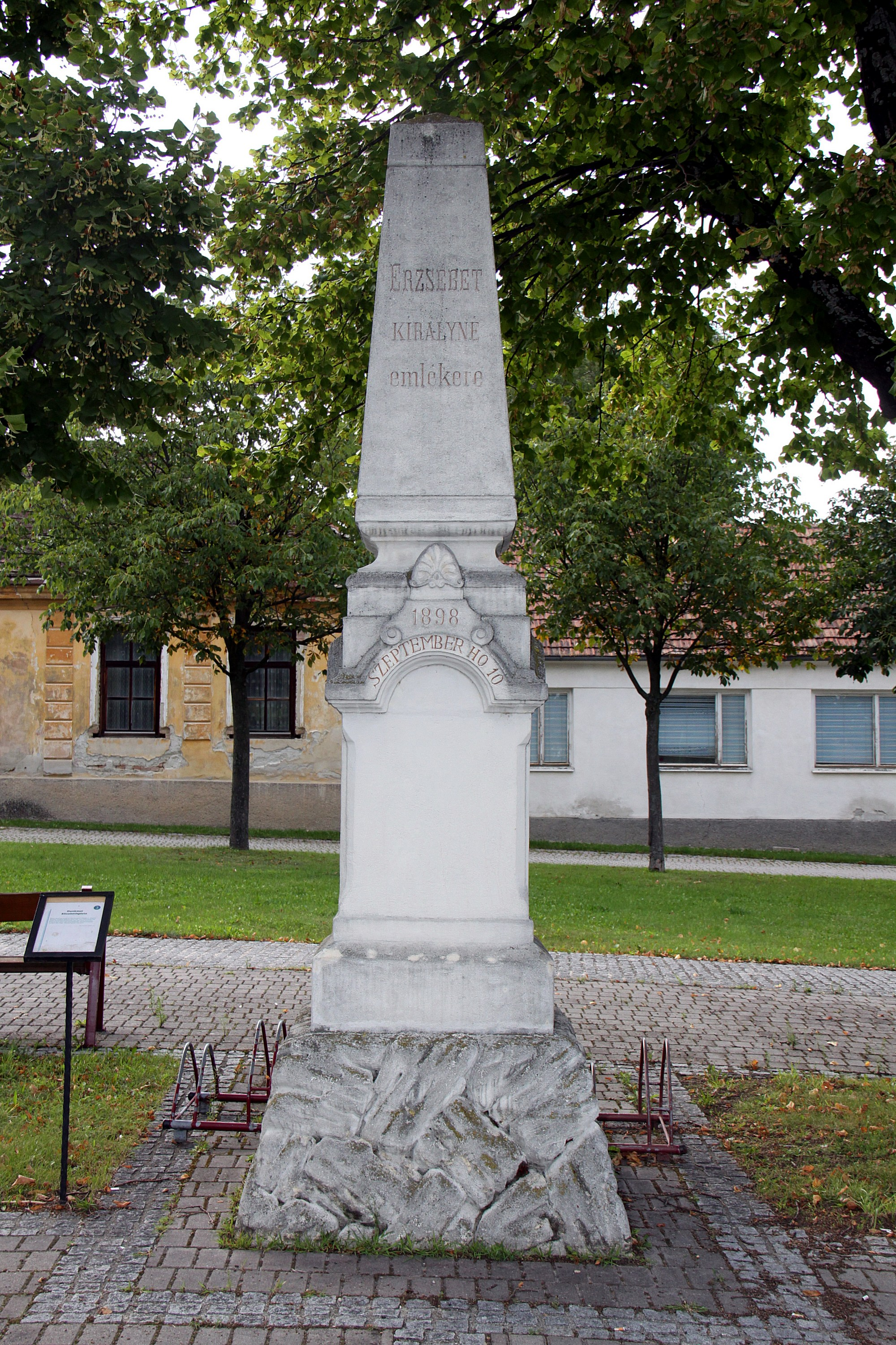 Empress Elisabeth-memorial - Deutschkreutz Object location47° 35′ 53.19″ N, 16° 37′ 45.84″ E